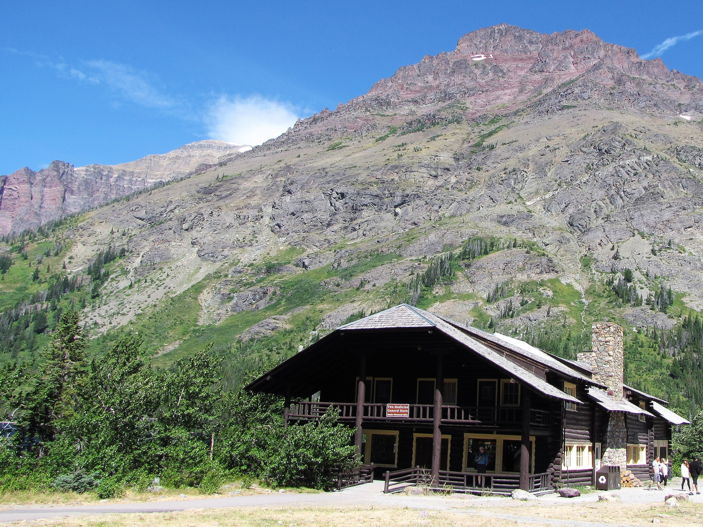 Two Medicine Camp Store in Glacier National Park, Montana, USA